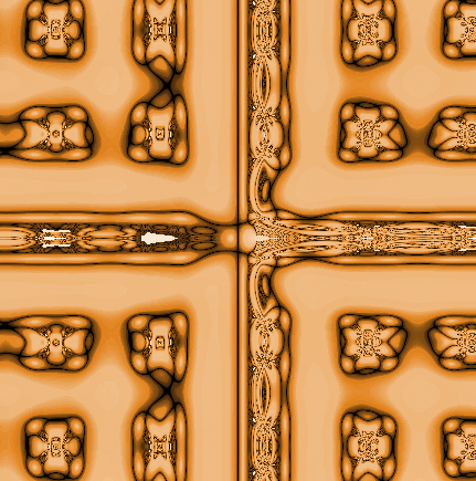 Example CF1: Topographical (moduli) image of an infinite composition best described as an Euler reverse self-generating continued fraction over [-10,10] in the complex plane.